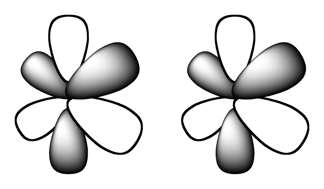 Boundary surface diagram of two f orbitals, aligned correctly to overlap and form a phi bond